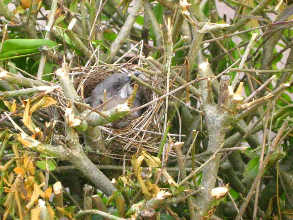 Sylvia curruca Sylvia borin